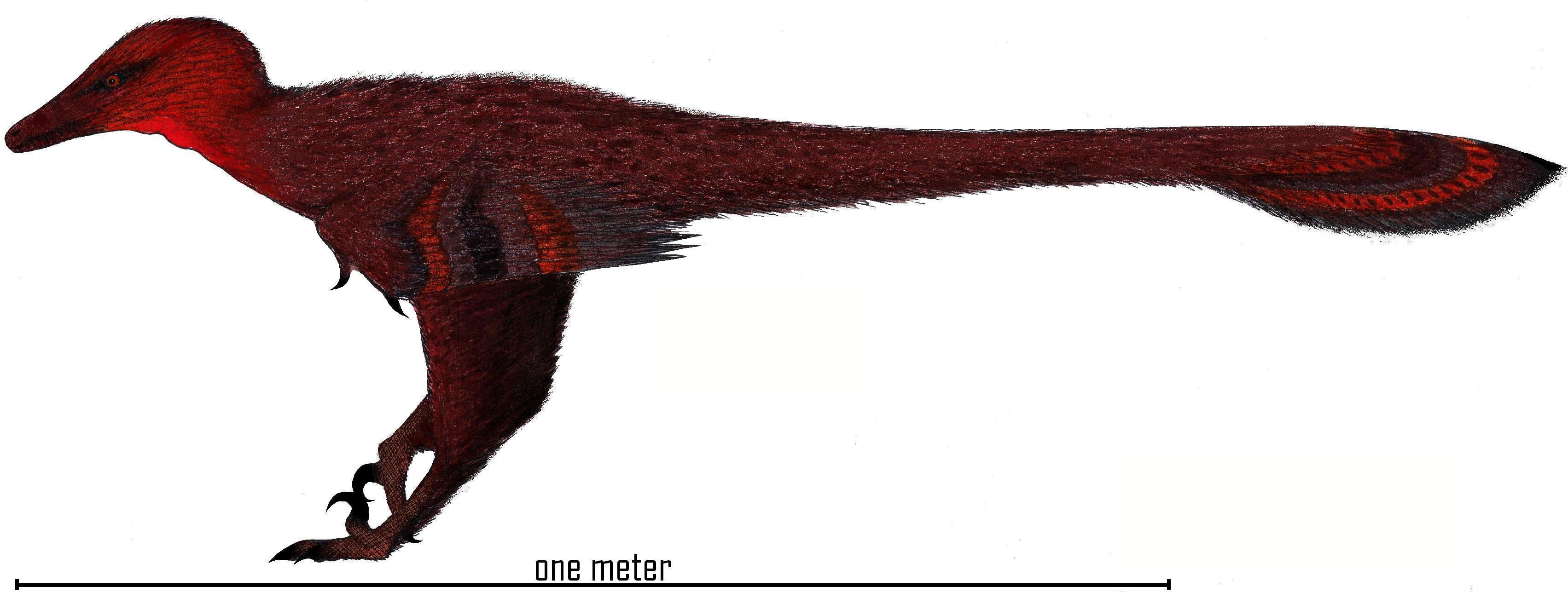 Shanag Restoration